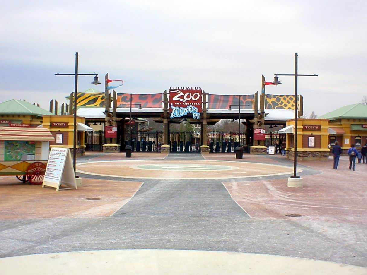 Front gate of Columbus Zoo and Aquarium.